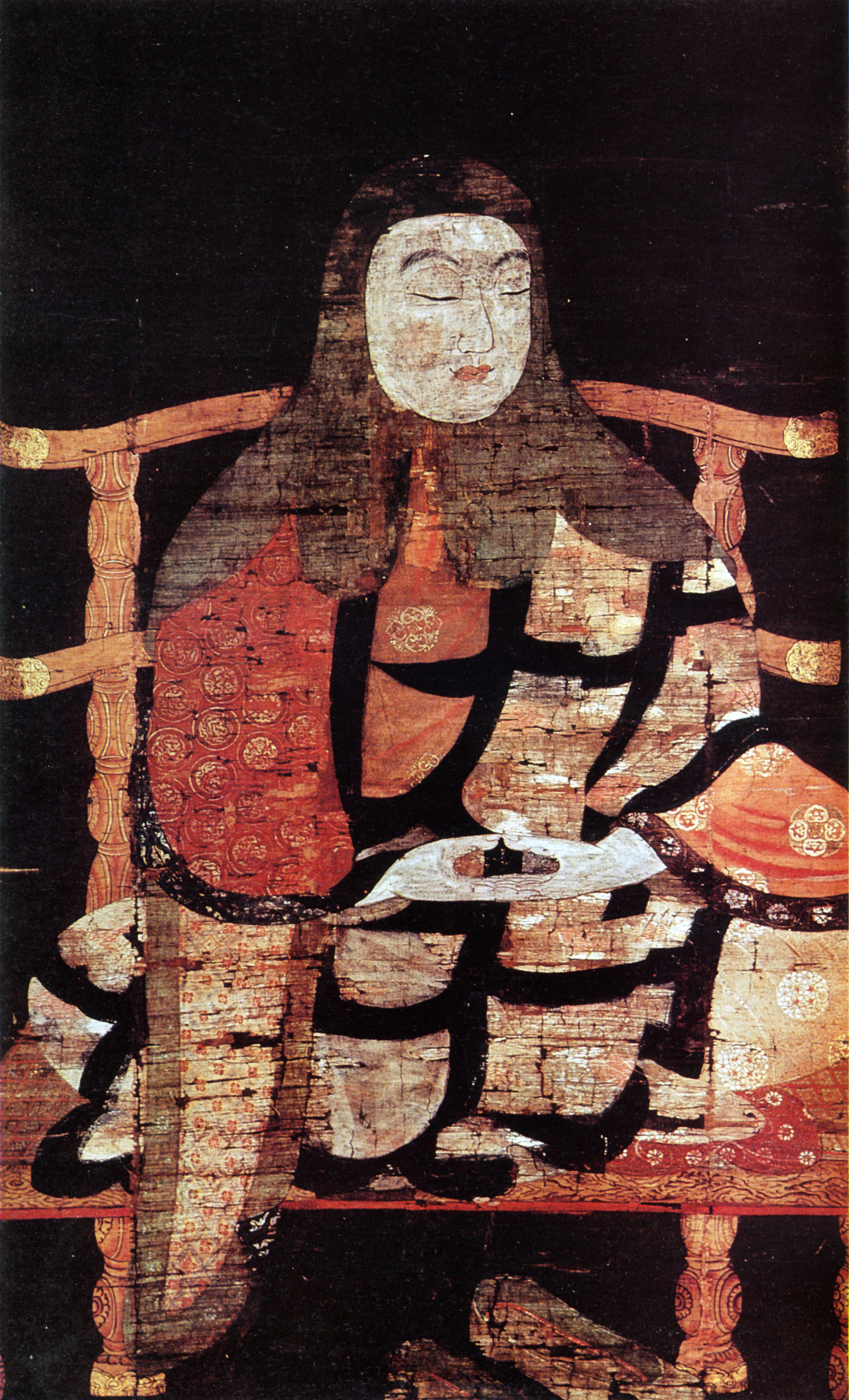 Portrait of Saicho(National Treasure of Japan),he was founder of Tendai Tantric Buddhism